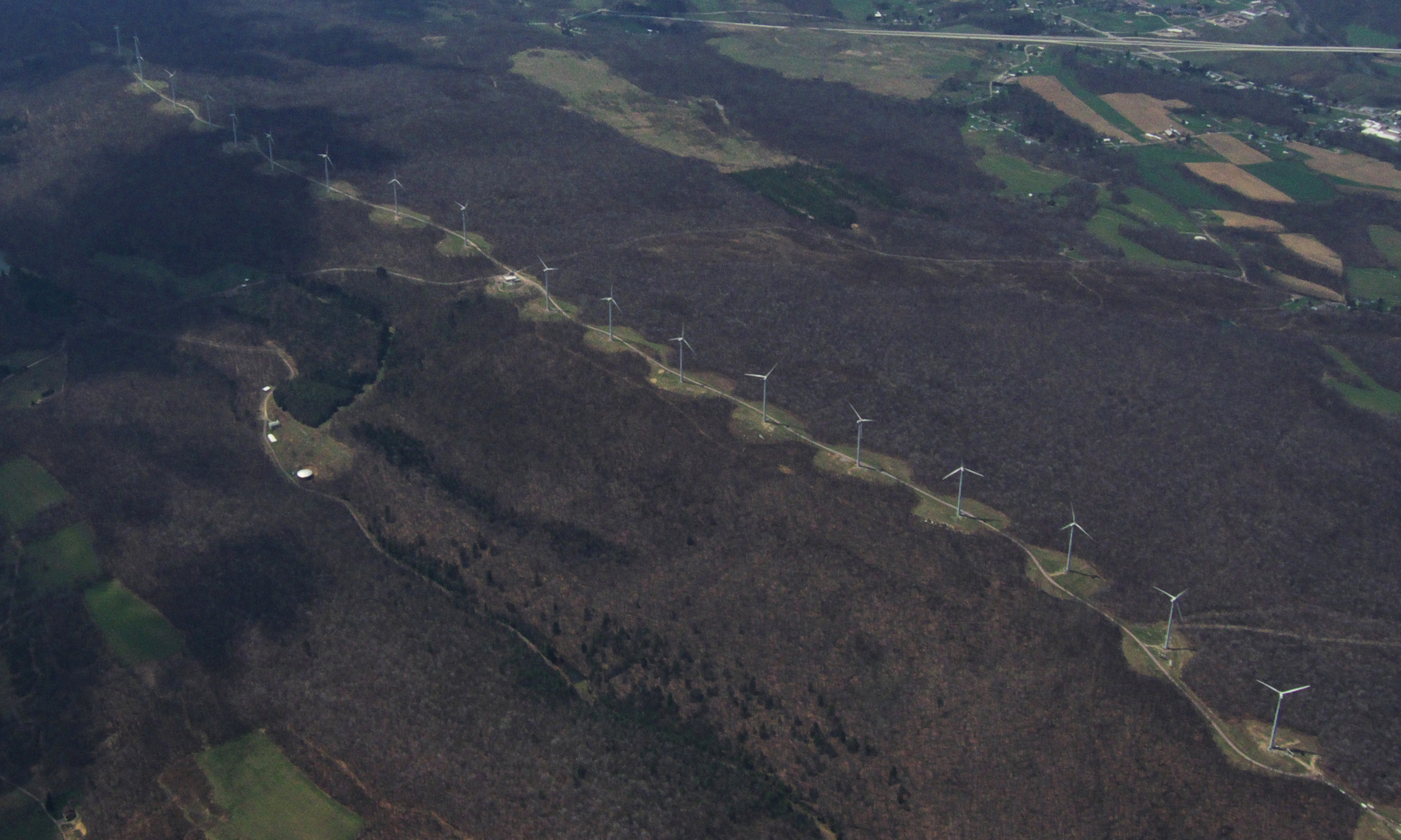 Aerial photo of part of the Meyersdale Wind Project along the Allegheny Front in southern Pennsylvania, near Meyersdale in Somerset County. Photo taken by the original uploader from a glider in flight on April 28, 2007 (looking west).